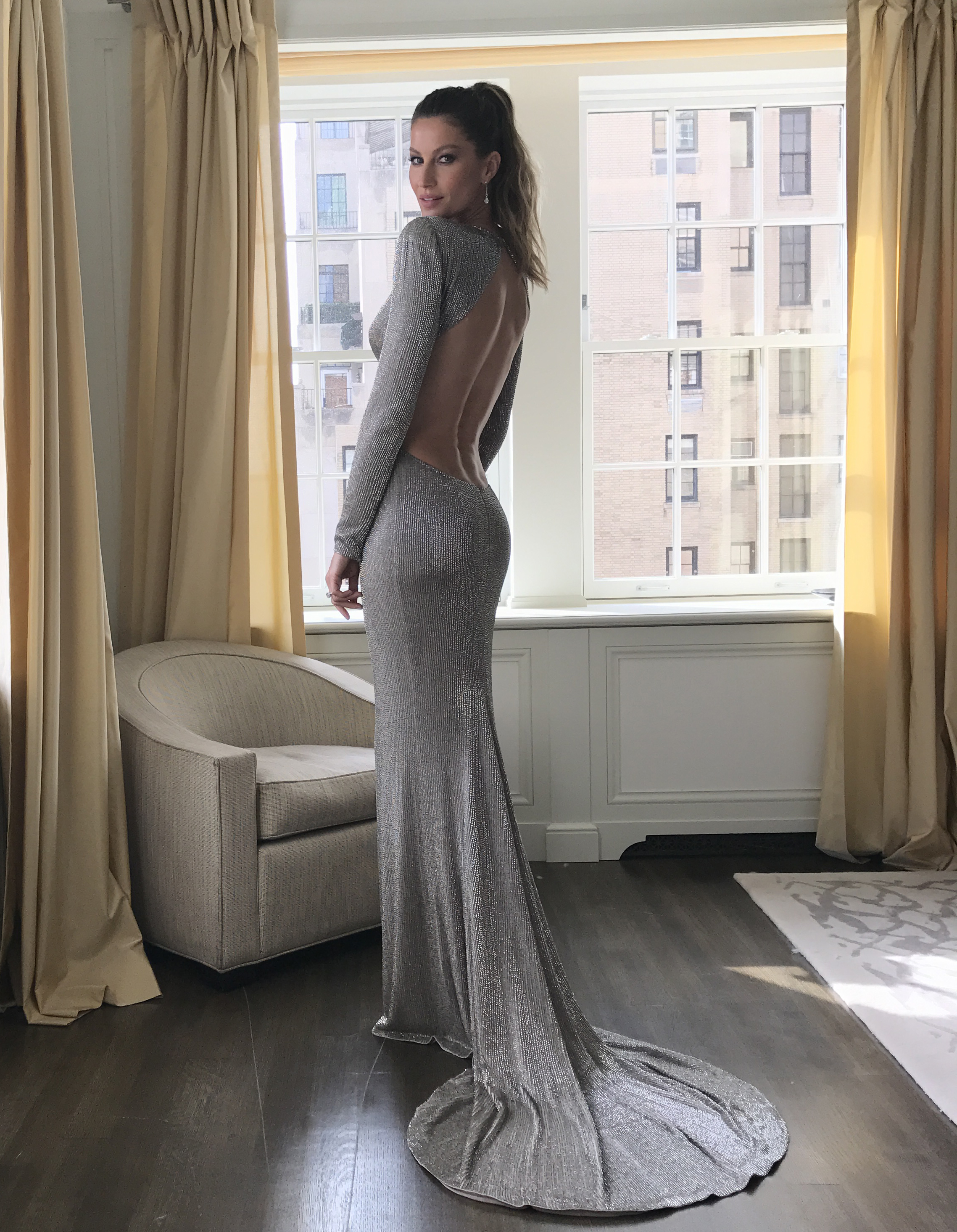 Photo Description/Caption: Gisele getting ready for the Met Gala Date: May 1, 2017 Location: New York City Nino Munoz